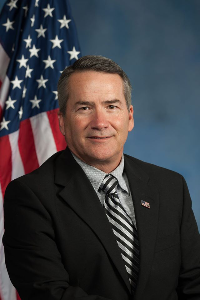 Jody Hice official portrait 114th Congress